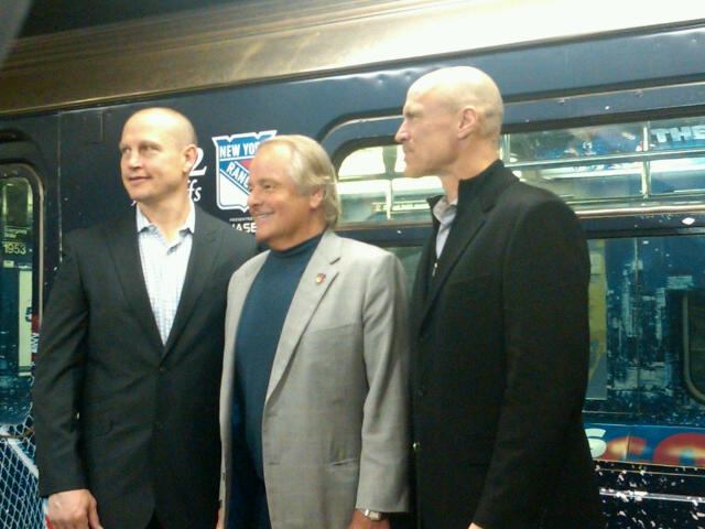 Novel forms of advertising continue to pop up in the subway as part of the MTA's efforts to increase revenue from advertising. This year, the New York Rangers kicked off their 2012 NHL playoff run with a special train on the 42nd Street Shuttle. Three shuttle cars are wrapped inside and out with Rangers branding to celebrate the team’s 54th postseason appearance. Let's go Rangers! This photo shows Ranger icons Adam Graves, Rod Gilbert and Mark Messier. Photo by Metropolitan Transportation Authority.